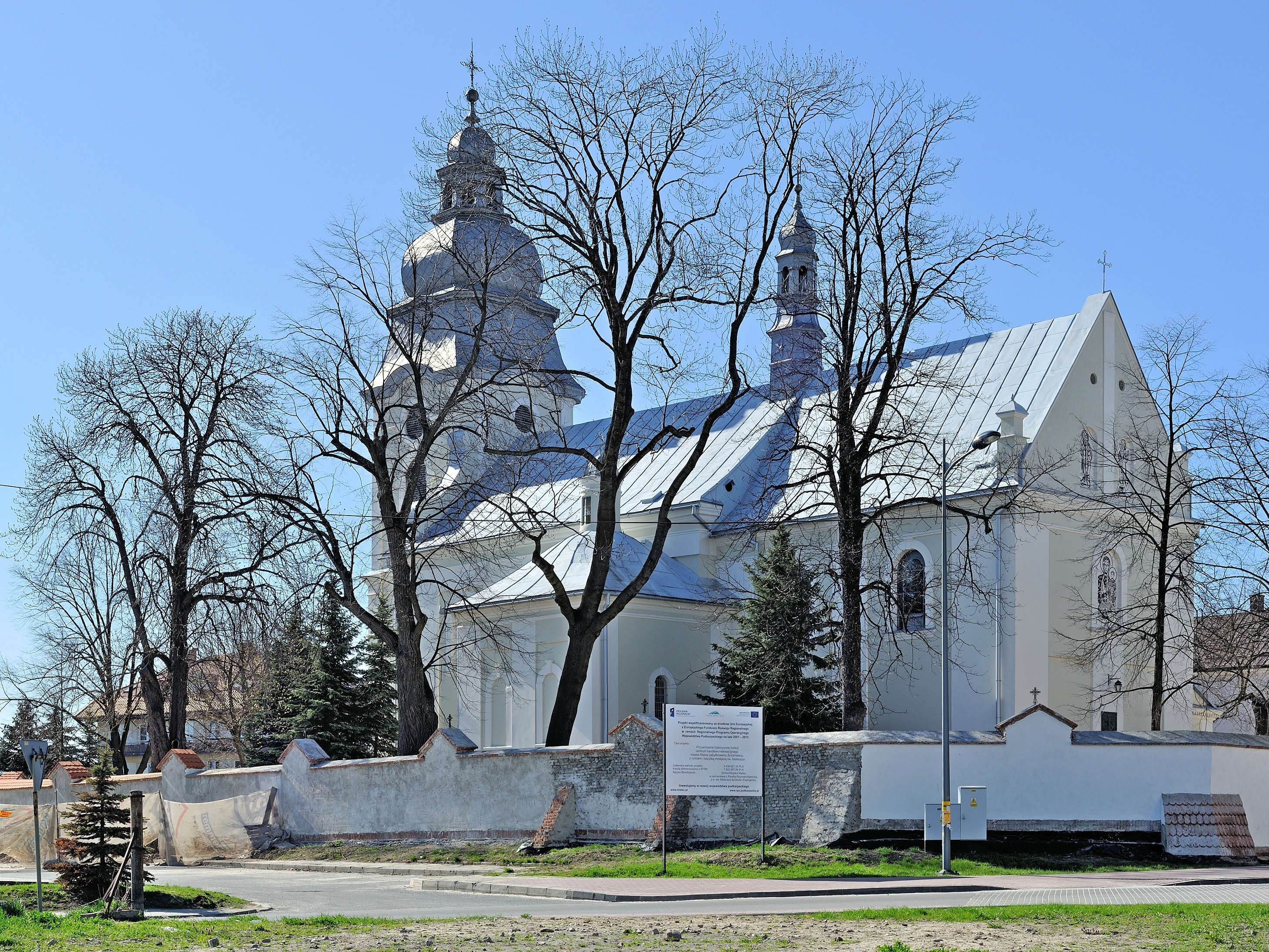 Saint Matthew church in Mielec